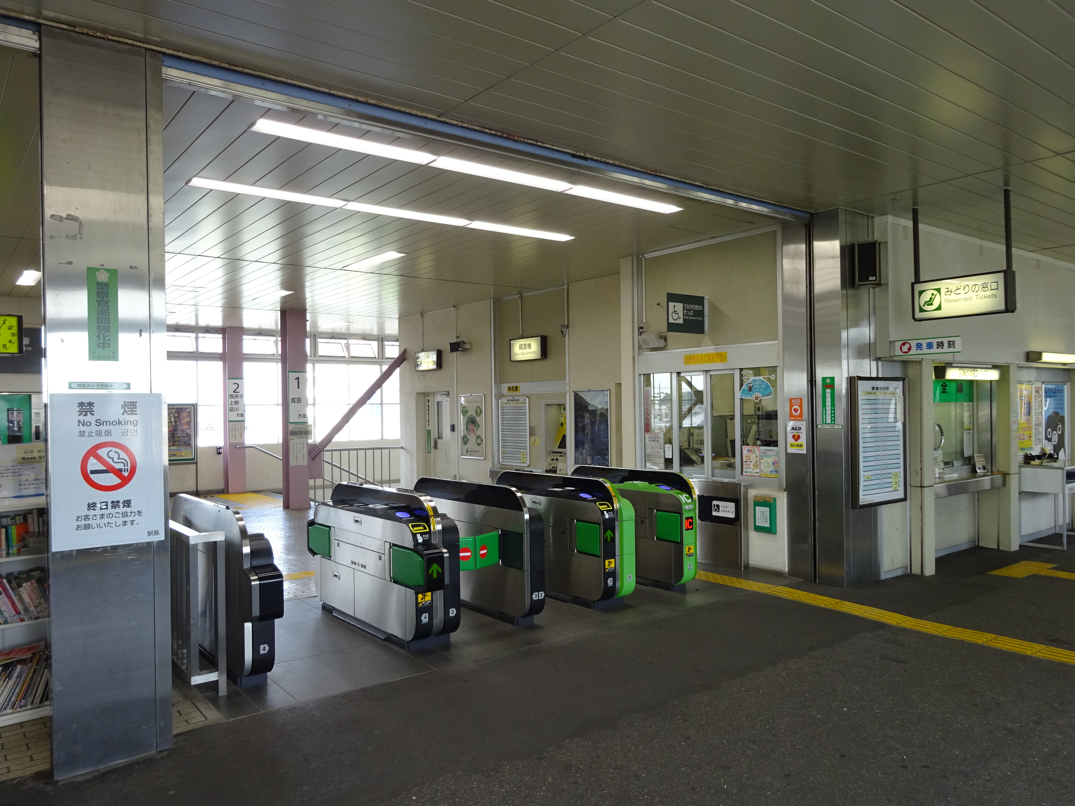 Ticket barriers of Kohoku Station